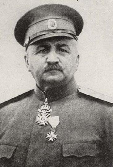 Bulgarian general Kiselov, conqueror of Turtucaia fortress in WWI.